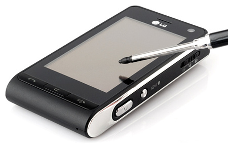 The LG KU990